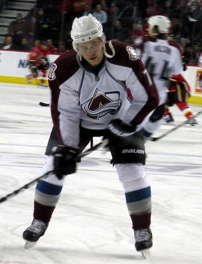 Colorado Avalanche forward T. J. Hensick prior to a National Hockey League game against the Calgary Flames, in Calgary.